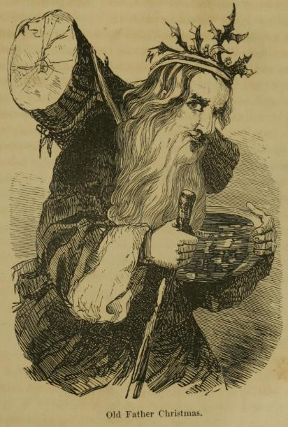 Book illustration, pen drawing